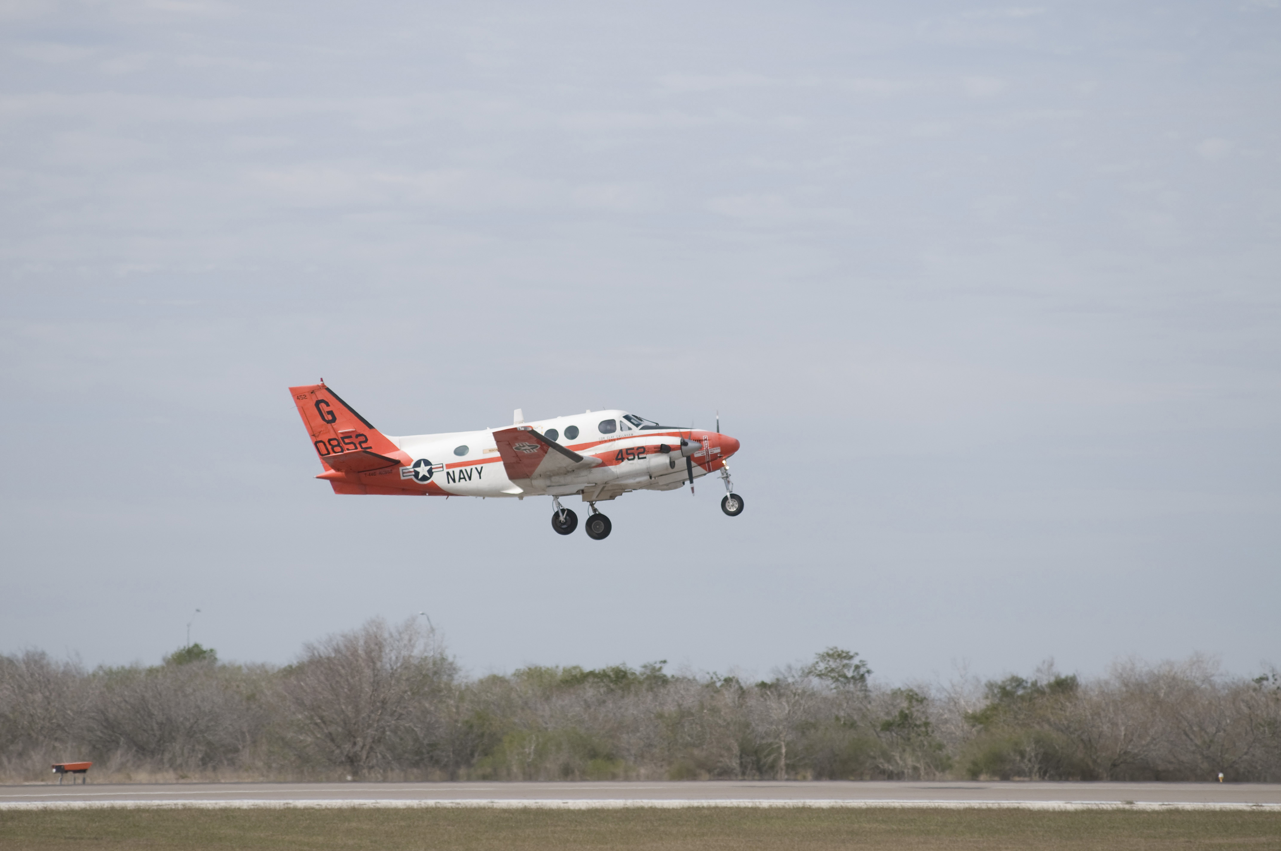 CORPUS CHRISTI, Texas (Jan. 12, 2012) A T-44C Pegasus aircraft assigned to Training Squadron (VT) 31 takes off during landing training at Naval Air Station Corpus Christi. (U.S. Navy Photo by Richard Stewart/Released)